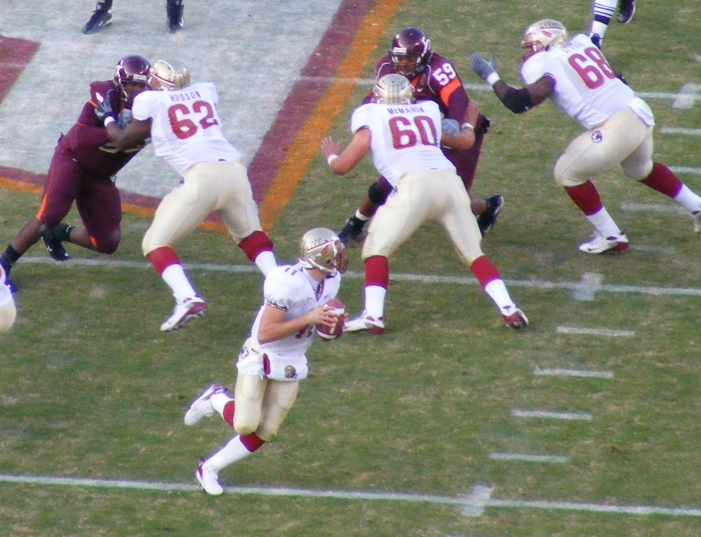 Florida State Seminoles quarterback Drew Weatherford rolls out to pass against Virginia Tech.